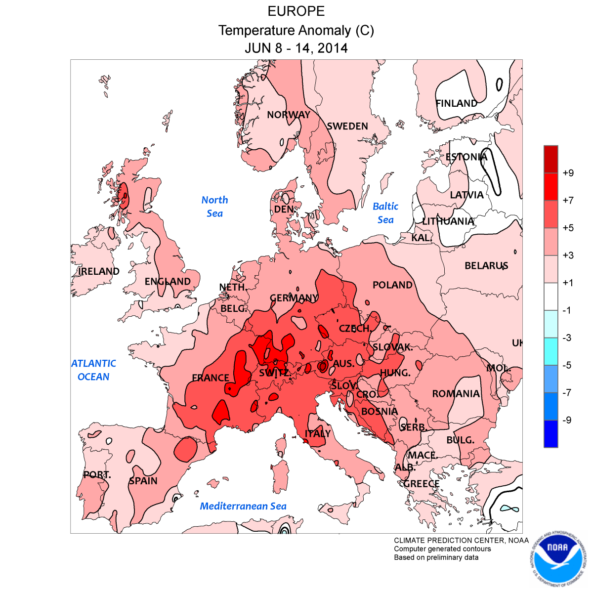 Europe heat anomaly June 2014